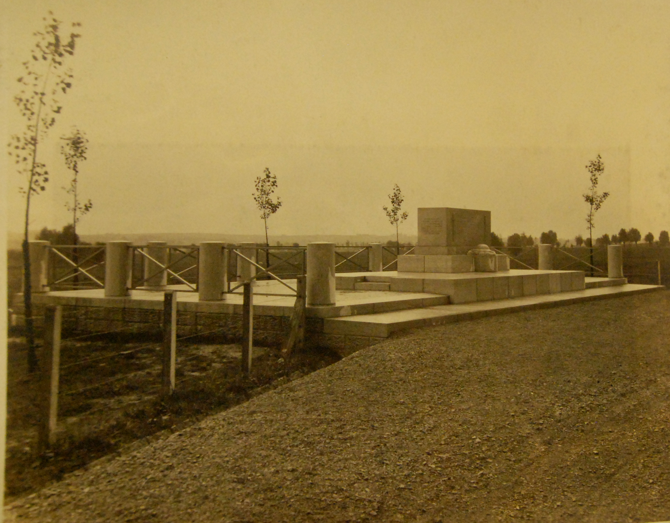 Lot 6591-30: American Memorial near Kemmel, Belgium. This memorial, located on the road between Ypres and Kemmel, commemorates the services of the 27th and 30th Divisions with the British Army in this vicinity in August and September 1918. Shown: American Memorial near Kemmel. President Franklin D. Roosevelt Collection-Photograph Album presented by General John J. Pershing, USA (Ret.), Chairman, American Battle Monuments Commission. The photographs in the collection were taken in 1923 to show the memorials erected by the American Battle Monuments Commission. Photographed through Mylar sleeve. (2015/10/09). More information